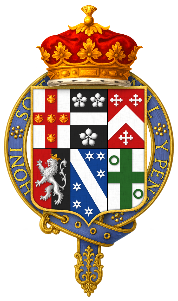 Coat of arms Sir George Villiers, 1st Duke of Buckingham, KG